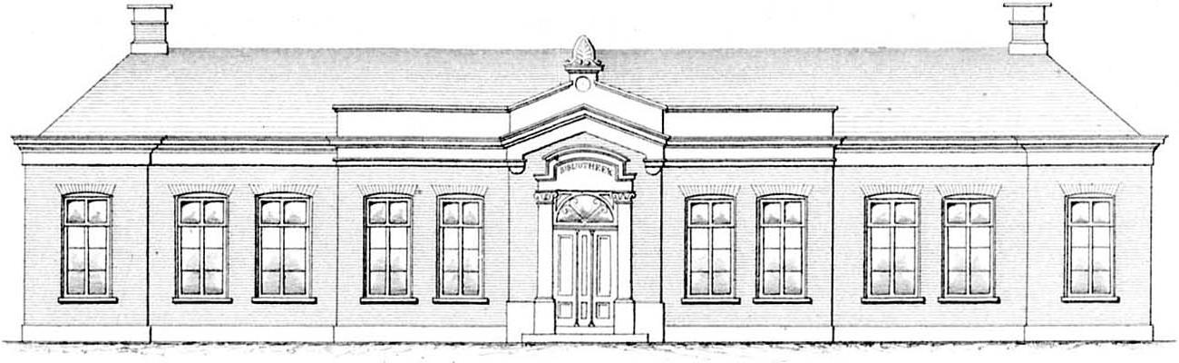 Universiteitsbibliotheek (University Library), Groningen. 1864 (construction).